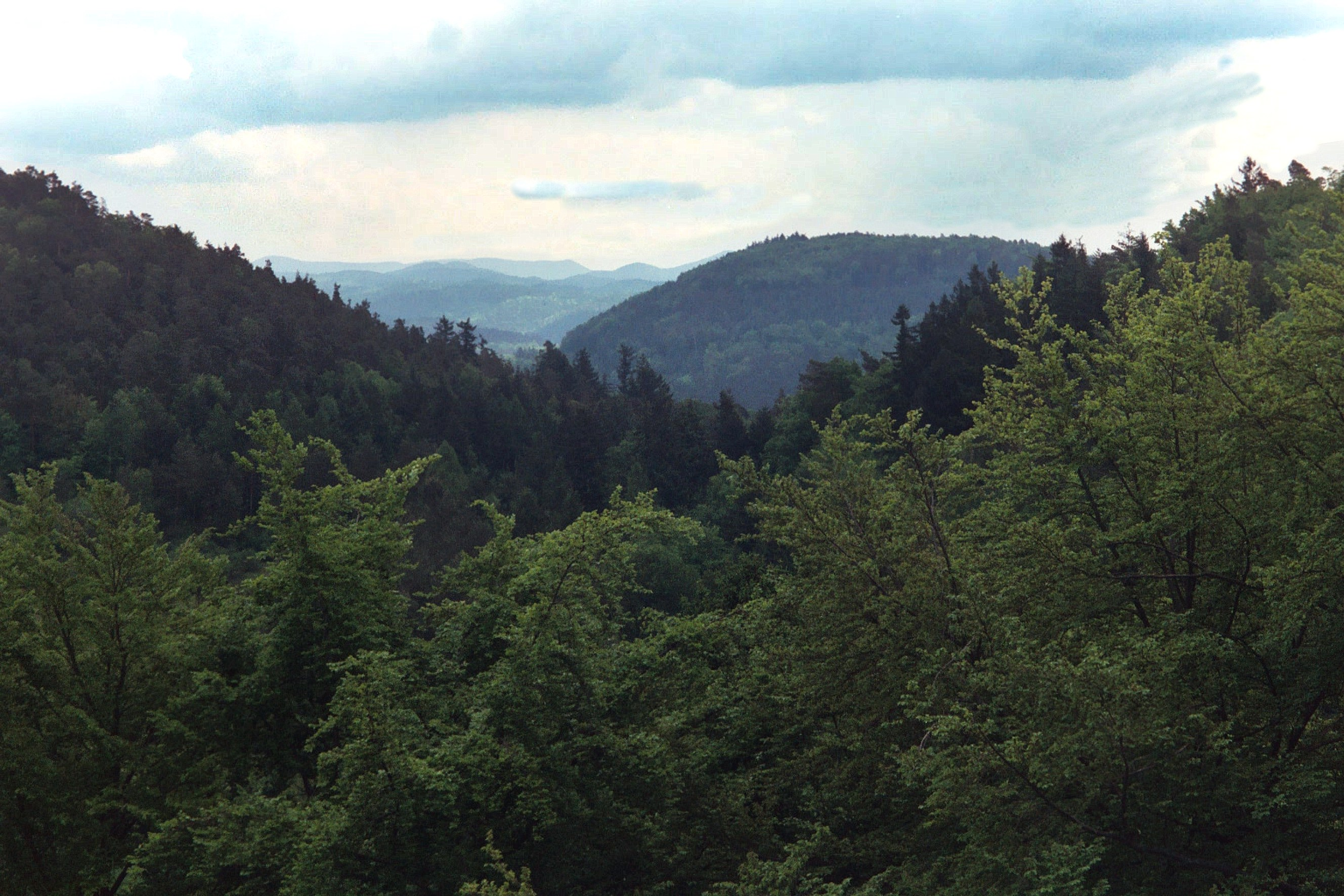 Lemberg (Pfalz), view from the ruined castle to the mountains